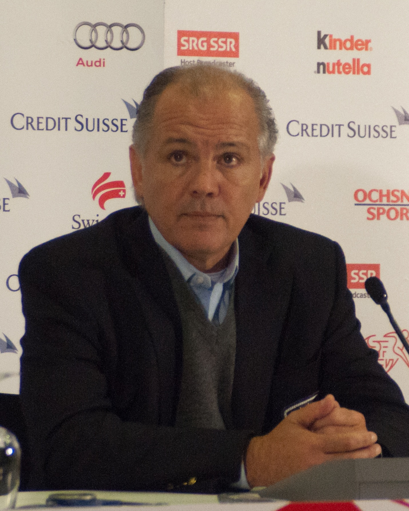 The making of this document was supported by Wikimedia CH.(Submit your project!) For all the files concerned, please see the category Supported by Wikimedia CH. Switzerland vs. Argentina, 29th February 2012